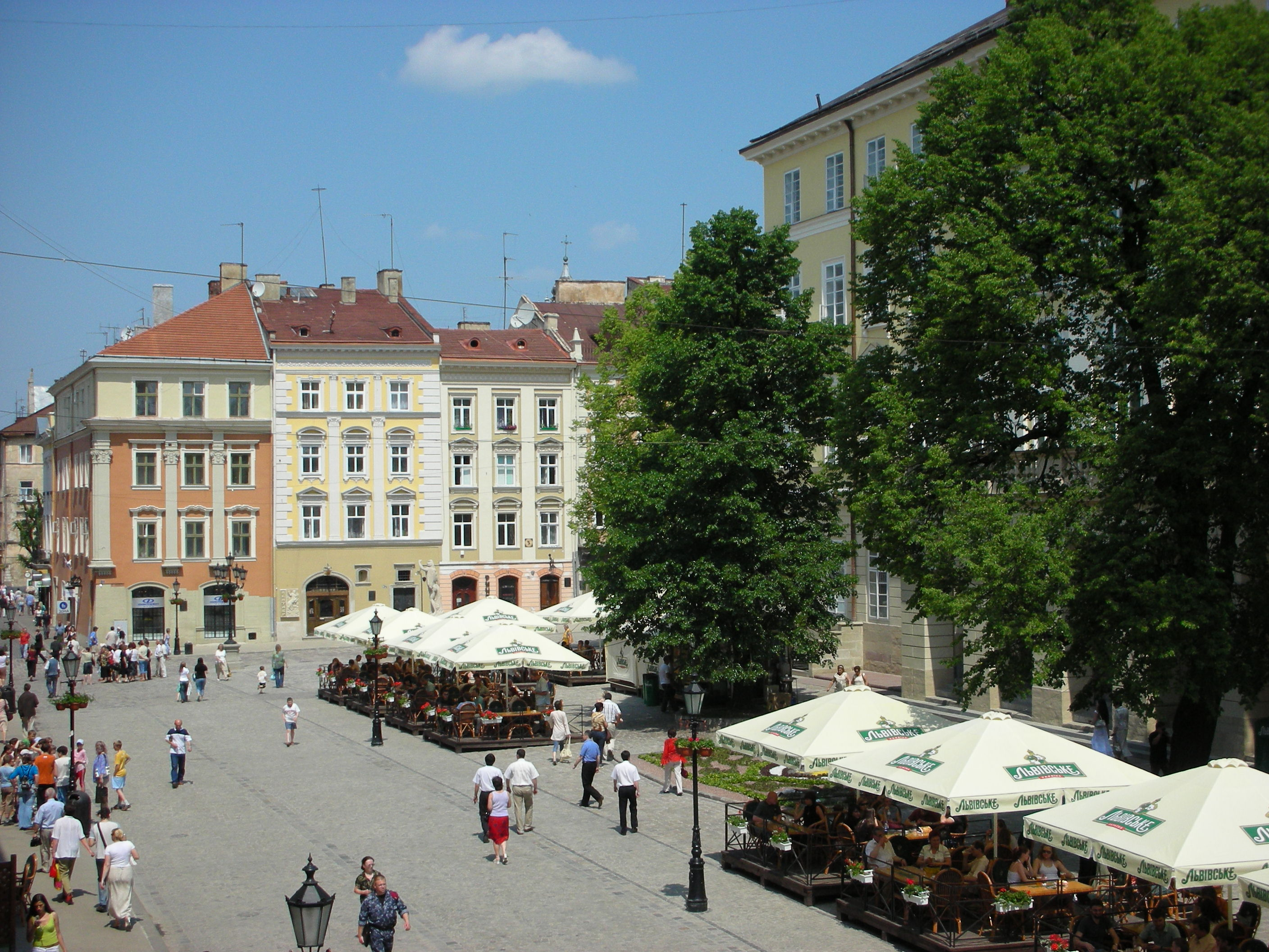 Market square in Lviv (Ukraine).